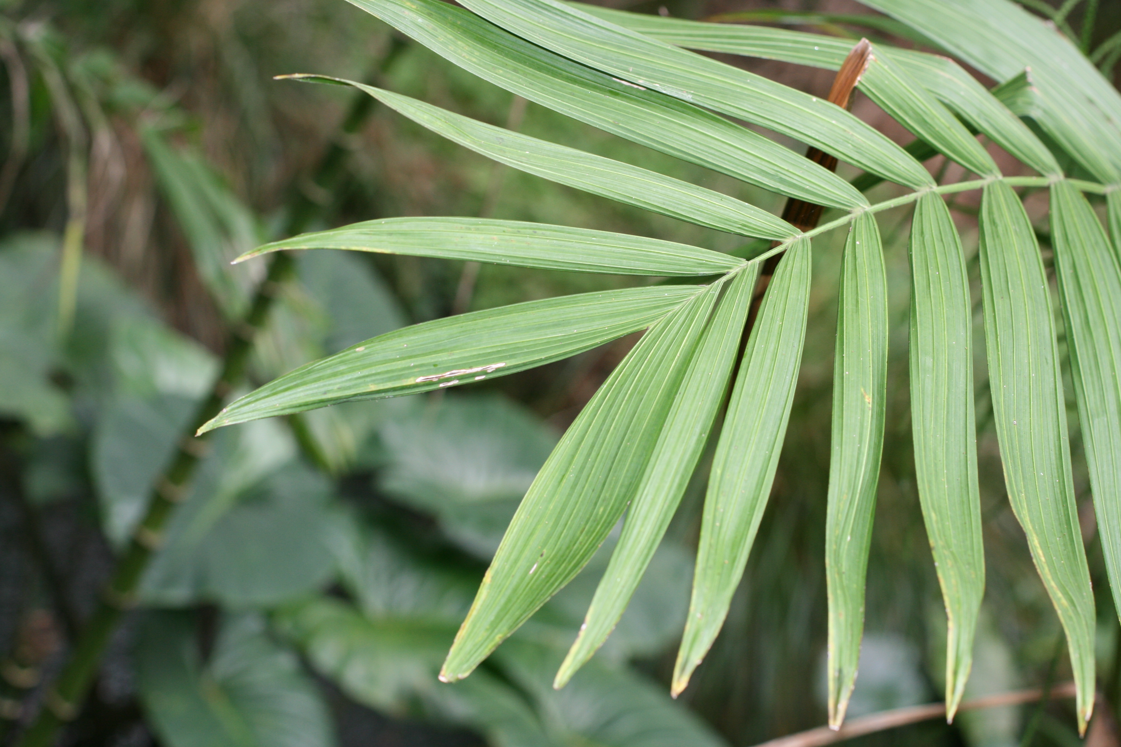 Frond detail, Chamaedorea costaricana, native to Costa Rica, and Panama to Honduras. Specimens growing in cultivation at Manukau City, New Zealand